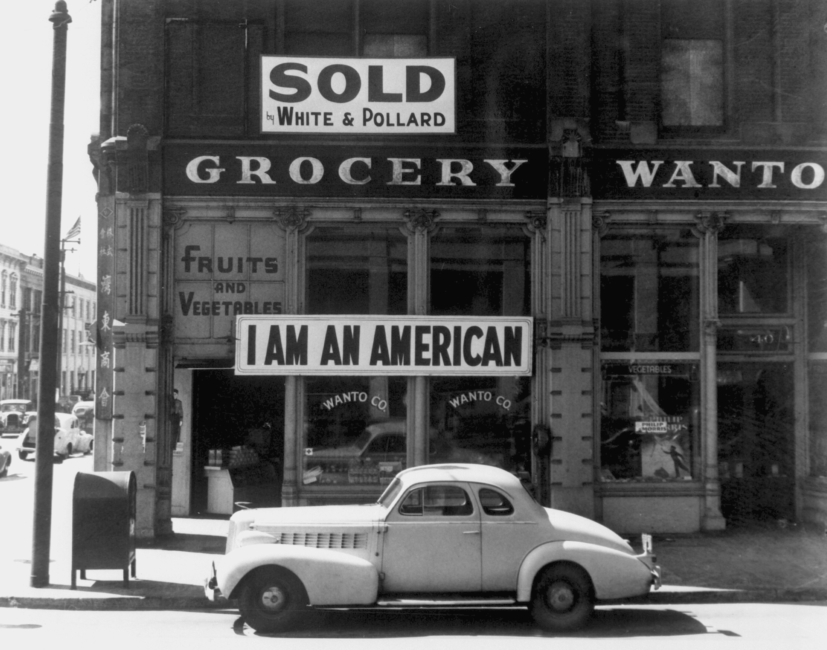 A large sign reading "I am an American" placed in the window of a store, at 13th and Franklin streets, on December 8, the day after Pearl Harbor. The store was closed following orders to persons of Japanese descent to evacuate from certain West Coast areas. The owner, a University of California graduate, will be housed with hundreds of evacuees in War Relocation Authority centers for the duration of the war. Oakland, California